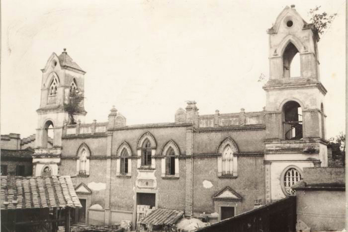 the photograph of Aowei Church of Holy Rosary of Fuzhou